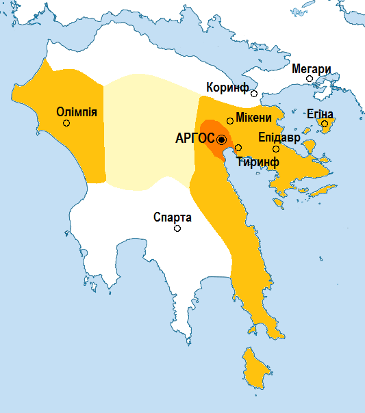 Map of Argos at the times of Pheidon